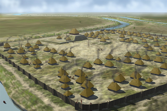 A digital painting of the Casqui province capital, the Parkin Archeological State Park, circa 1539 by Herb Roe.